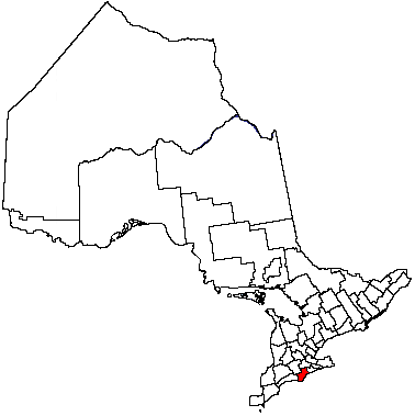 Norfolk County, Ontario